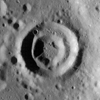 Concentric crater Bell E on the Moon farside, in crater Bell. Its diameter is about 16 km. It is not included in the list of concentric craters by Wood, 1978. Photo by Lunar Reconnaissance Orbiter, made with Wide Angle Camera on 14 January 2010 from altitude 57 km. Sun elevation is 14.7°. Width of the photo is 28 km, north is approximately up.